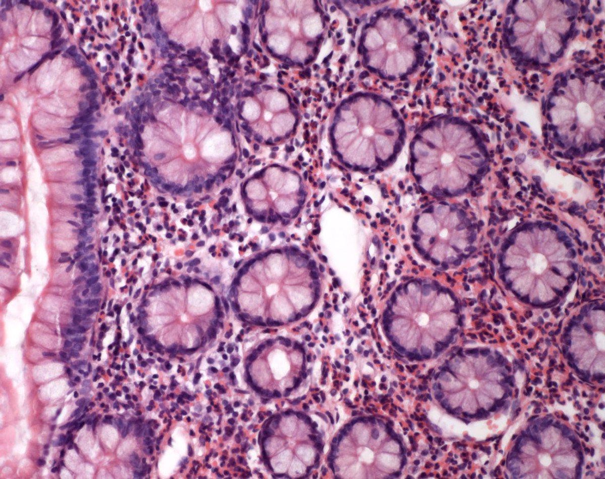 Endoscopic biopsy of ileum showing distinct eosinophilic infiltration (haematoxylin and eosin ×100).